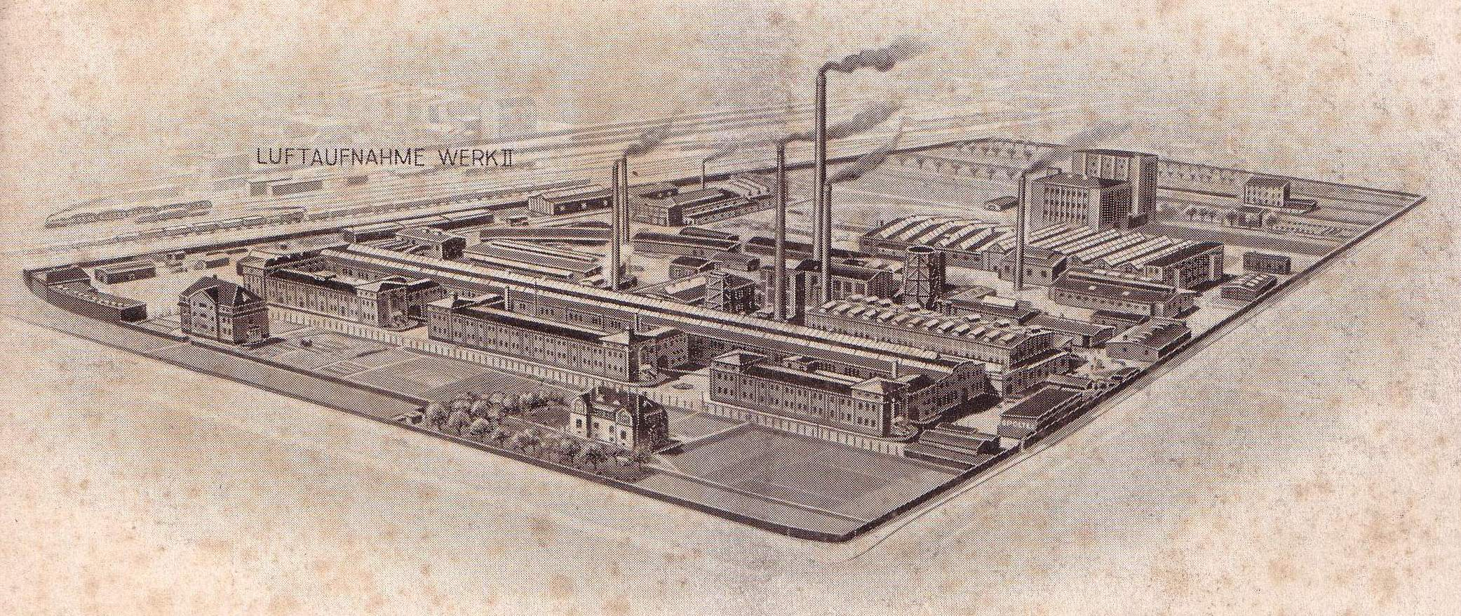 Polte factories, Magdeburg, Germany